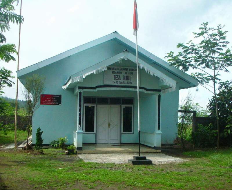 Buntu Village Hall, Kejajar Subdistrict, Wonosobo Regency, Central Java, Indonesia